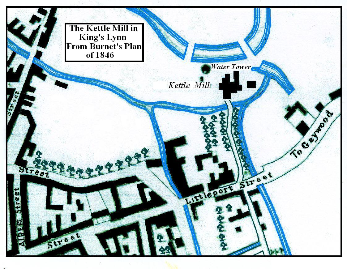 A Map Drawn using Paintbrush of the Kettle Mill on the River Gaywood, King's Lynn.